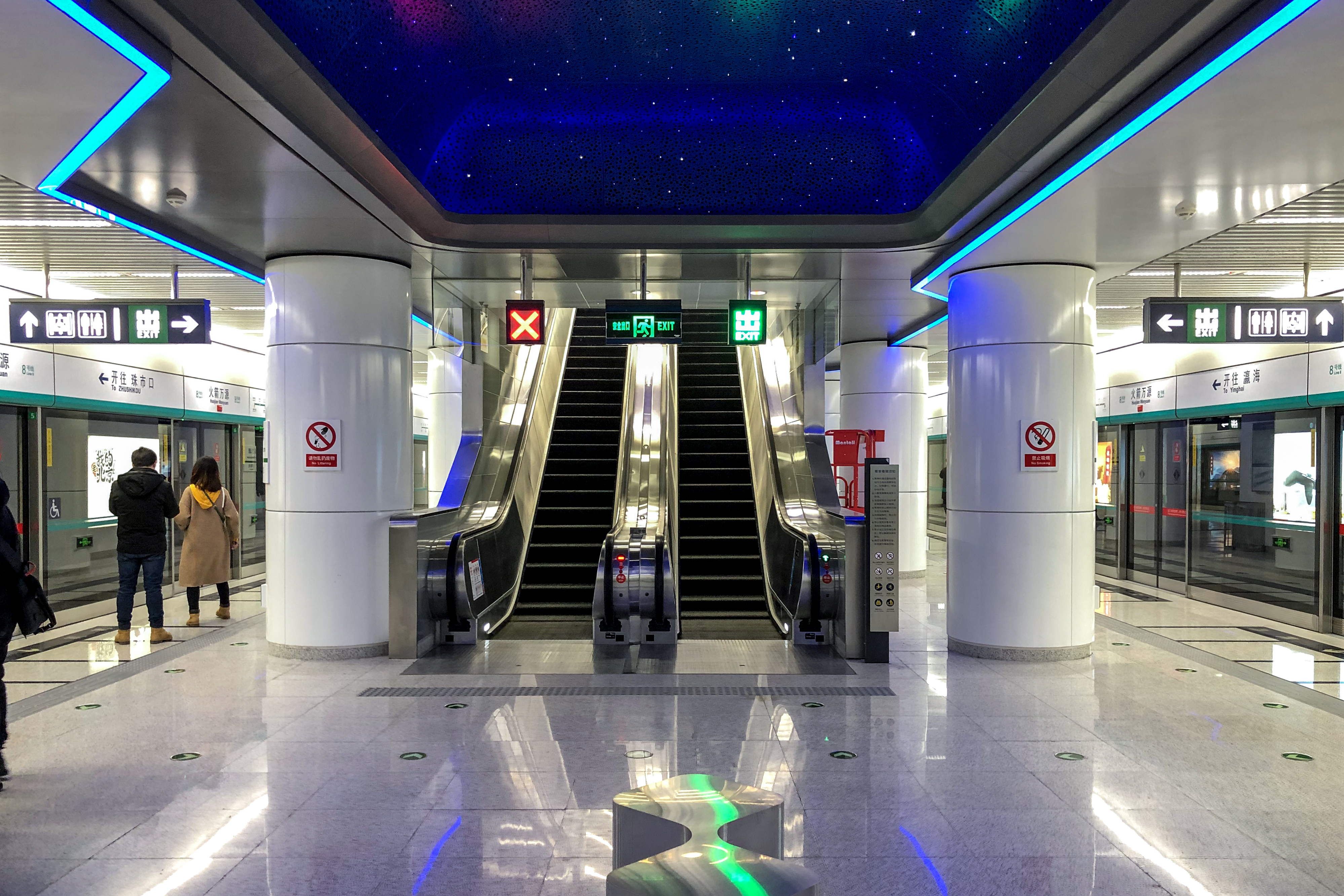 Someone joked this station as "Rocket Girls Station".